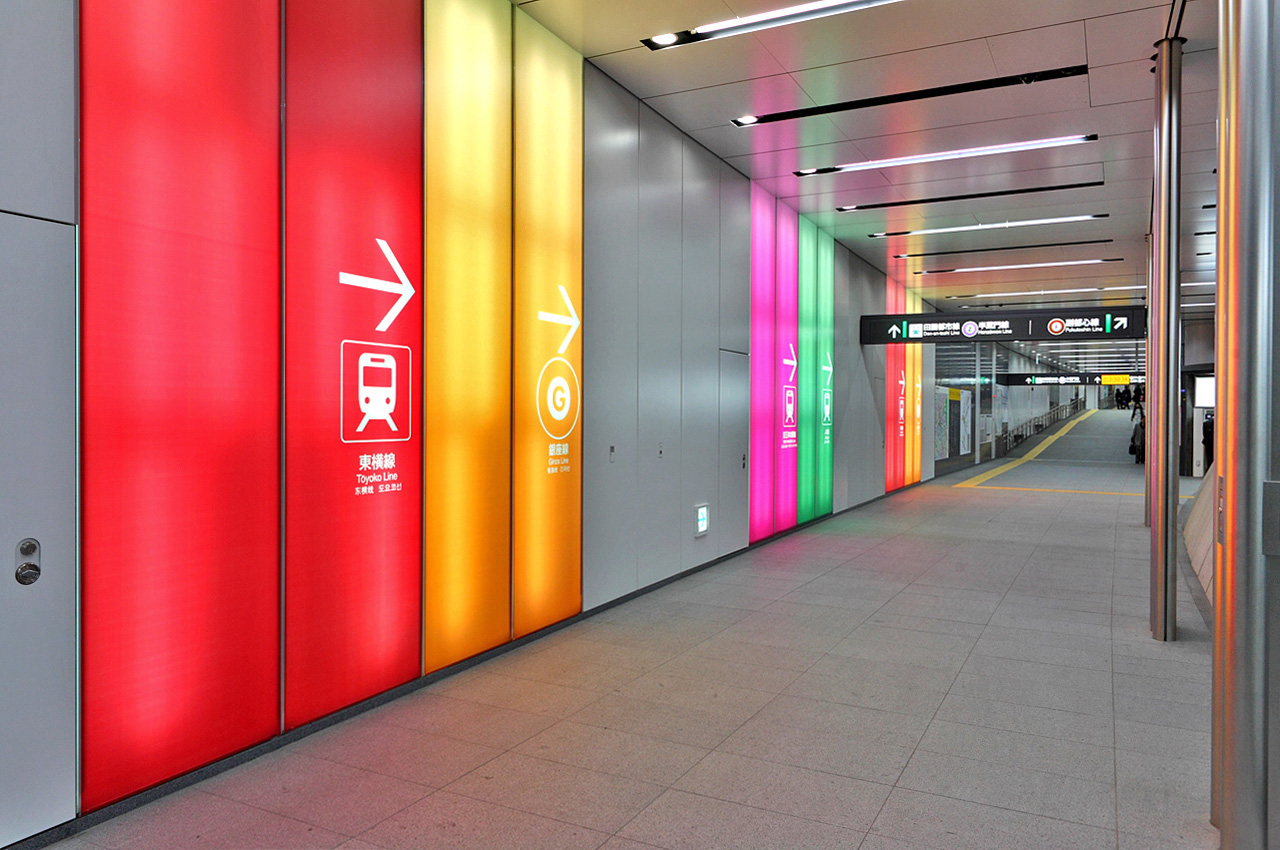 A transfer passage of Tokyo Metro Fukutoshin Line Shibuya StationRed : Tōkyū Tōyoko LineOrange : Tokyo Metro Ginza LineMagenta : Keiō Inokashira LineGreen : JR East (Yamanote Line, Saikyō Line and Shōnan-Shinjuku Line).